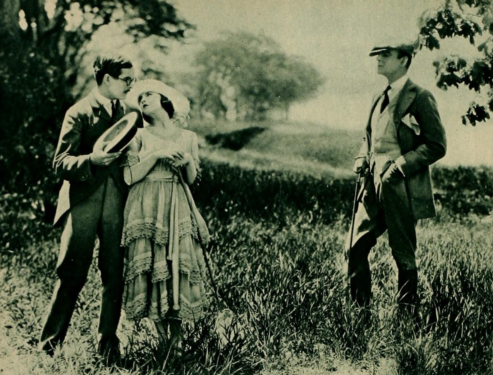 Still from Way Down East